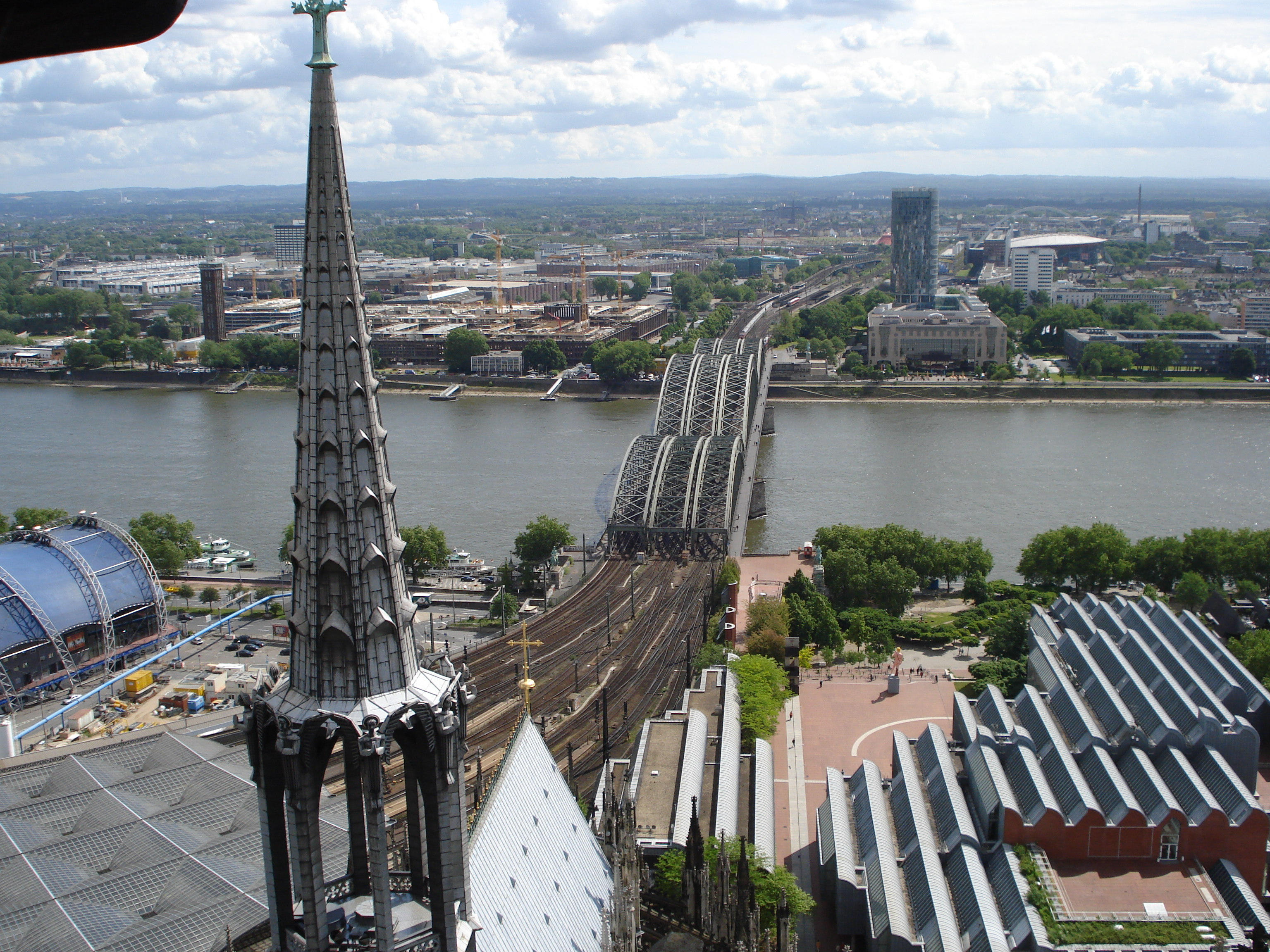 Photo on the top of the tower of Cologne Cathedral